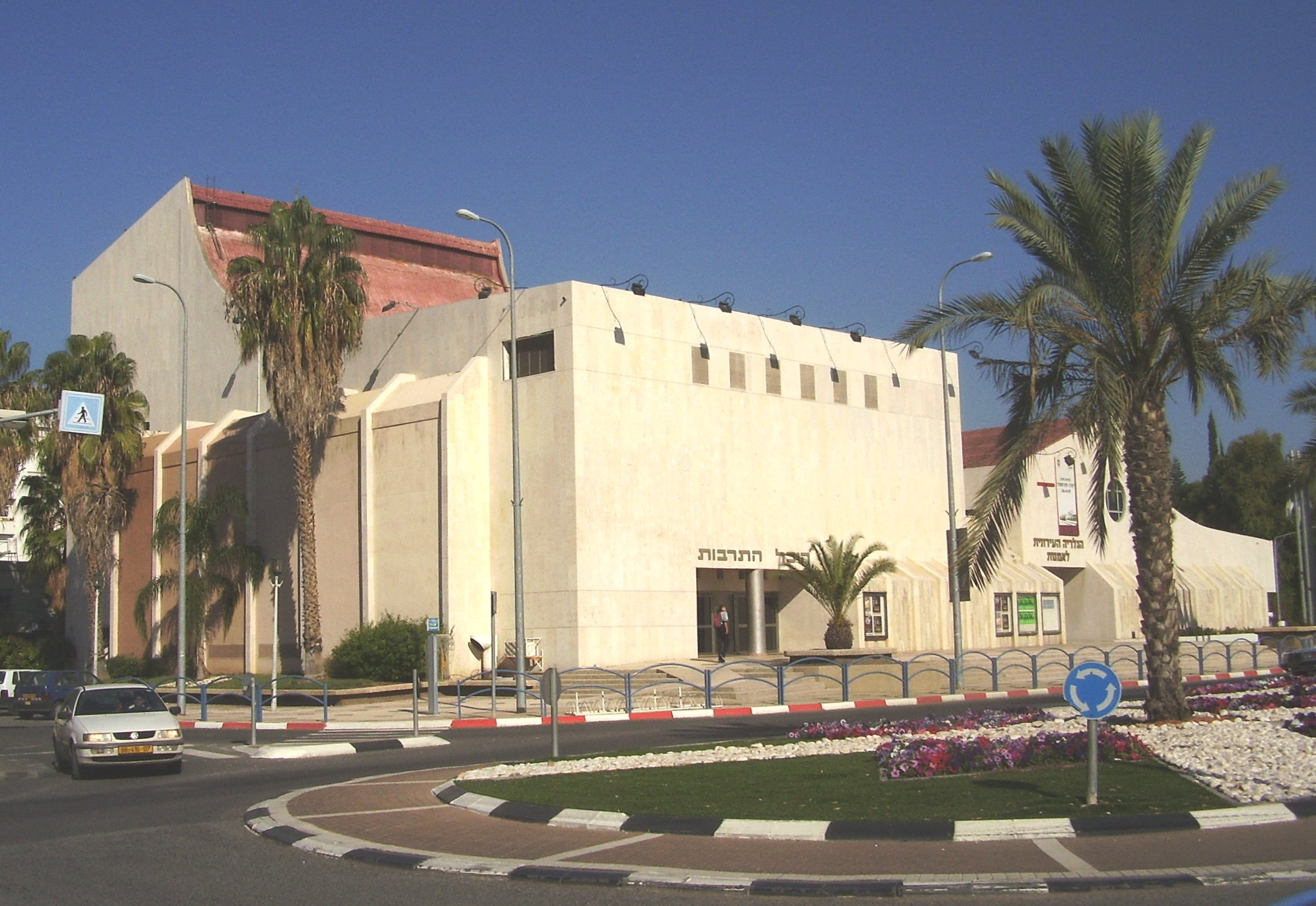 The Afula city auditorium and art gallery, Israel